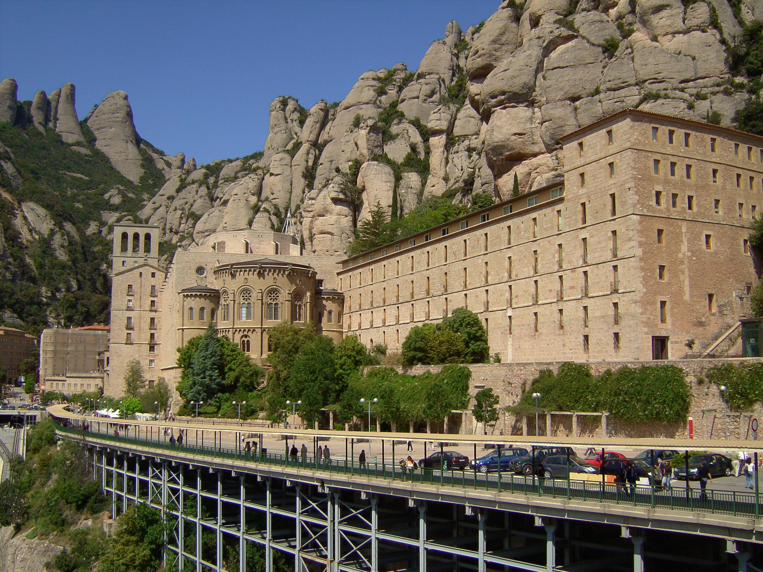 The Monestry of Montserrat